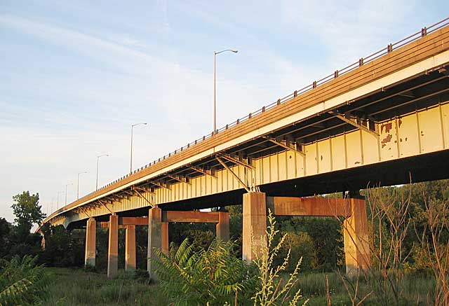 This is the western end of the William H. Putnam Memorial Bridge over the Connecticut River.